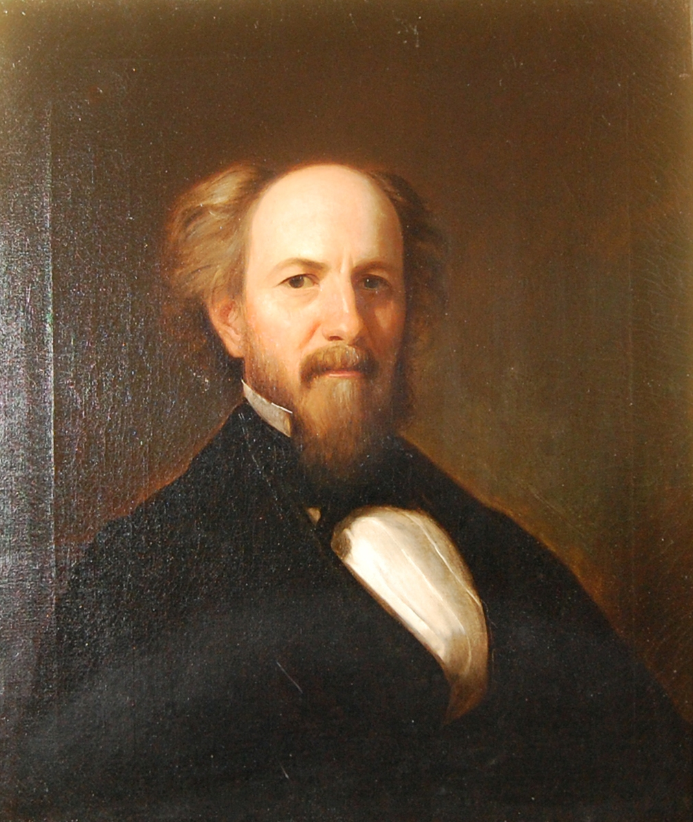 portrait